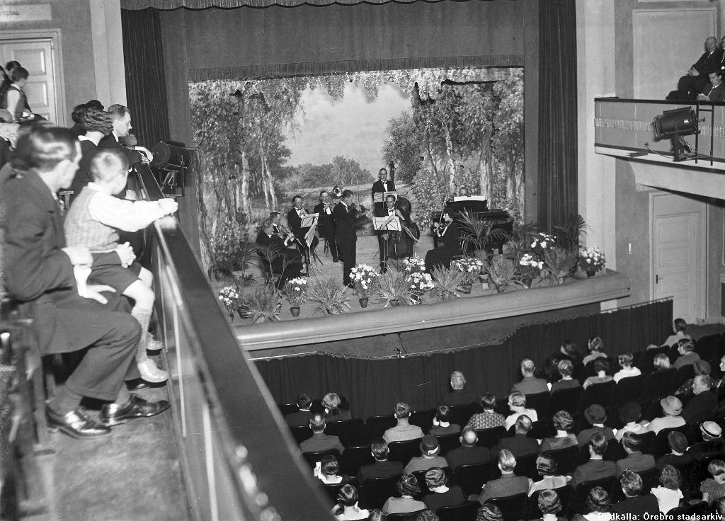 The People's Palace in Örebro, Sweden. The main hall.